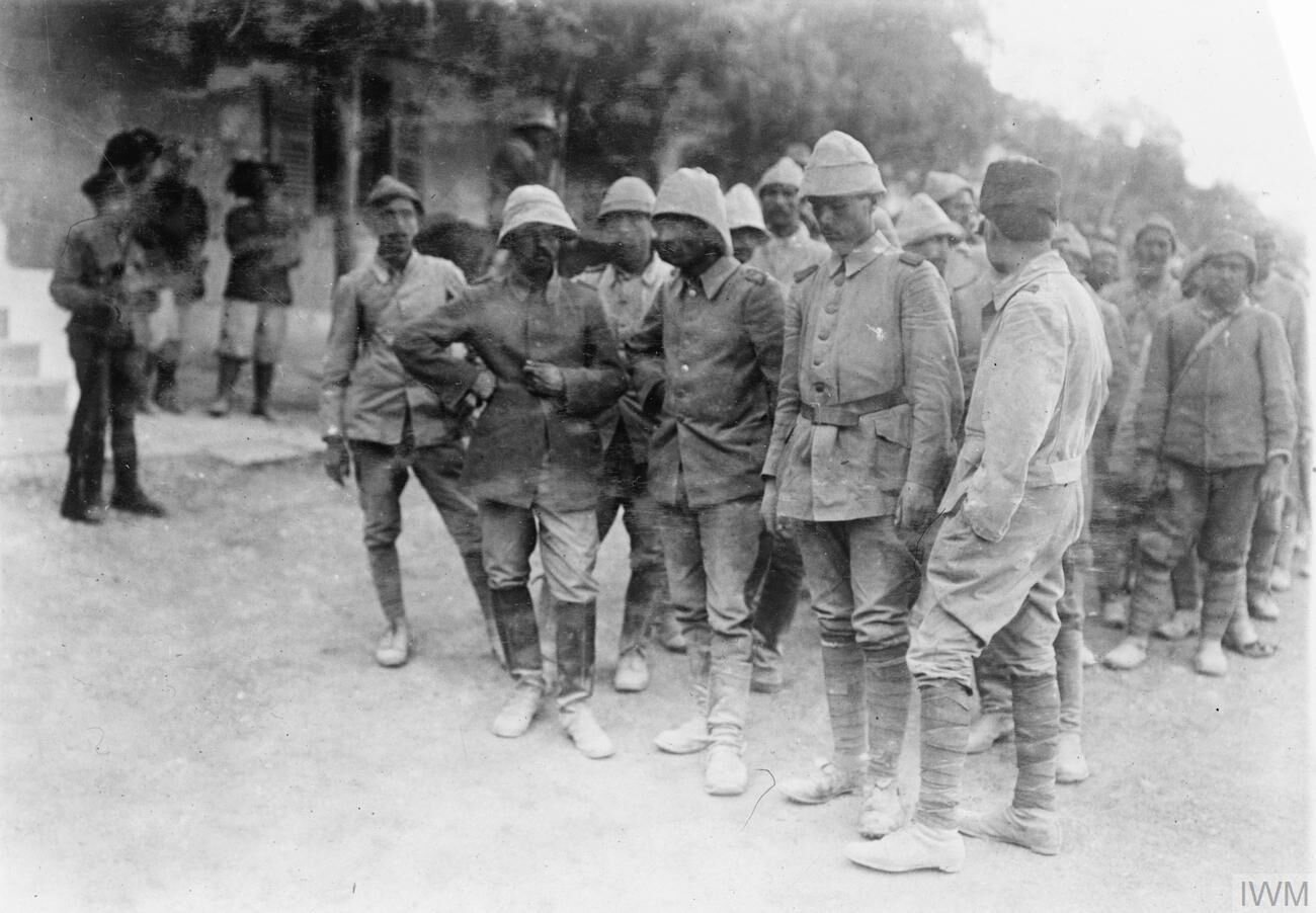 50 German prisoners taken in second Transjordan attack